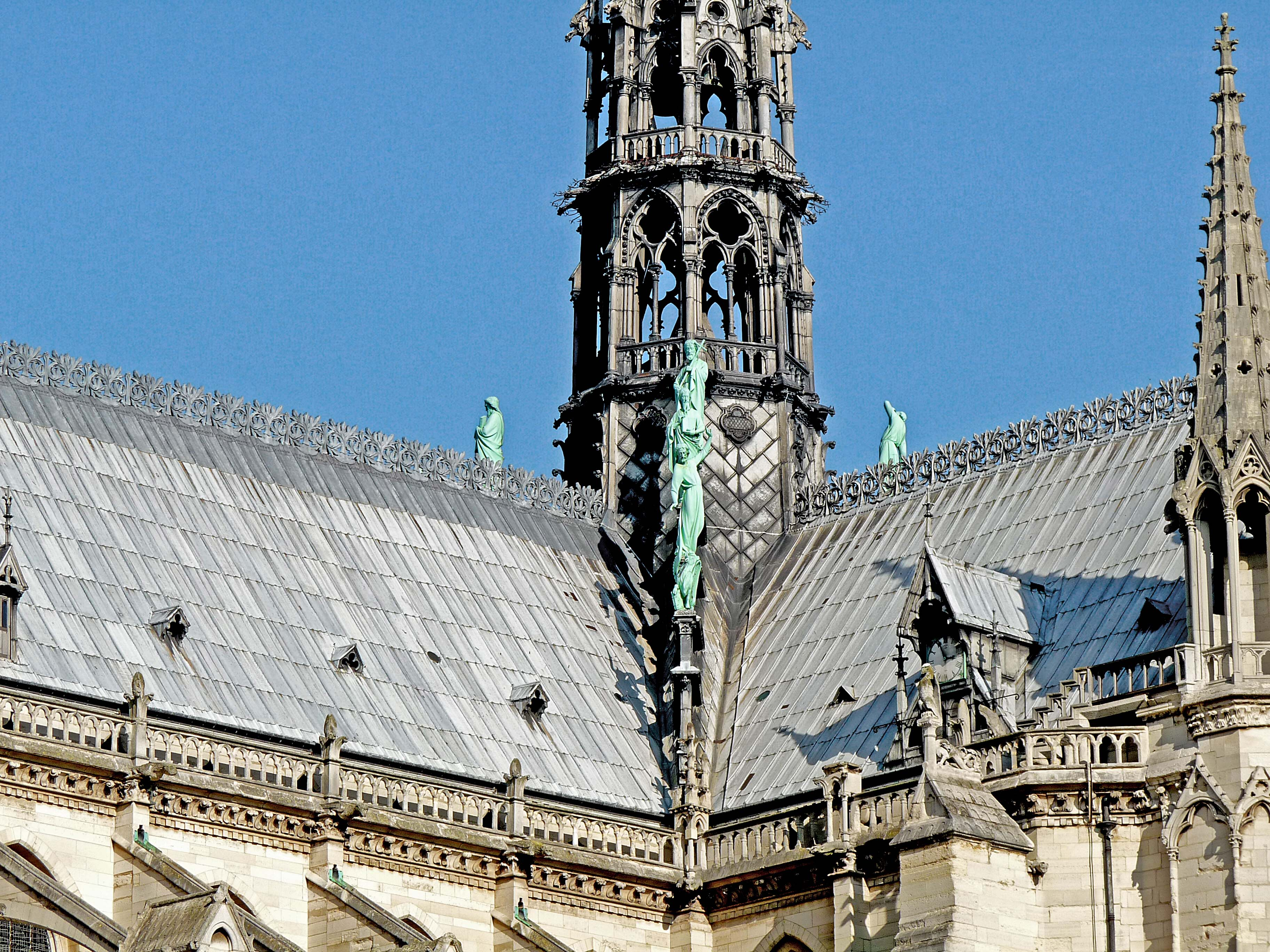 Lead covering on the cathedral Notre-Dame-de-Paris.